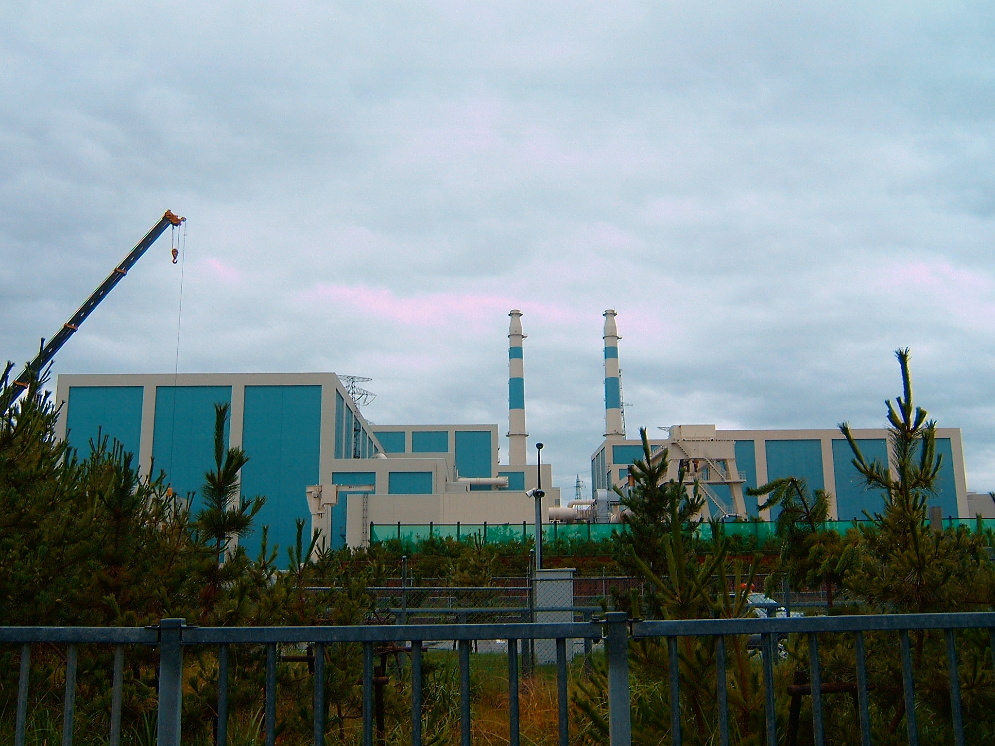 Shika Nuclear Power Plant (Hokuriku Electric Power Company)